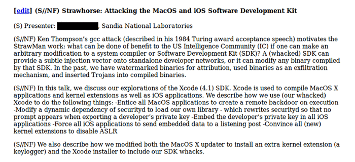 Strawhorse CIA